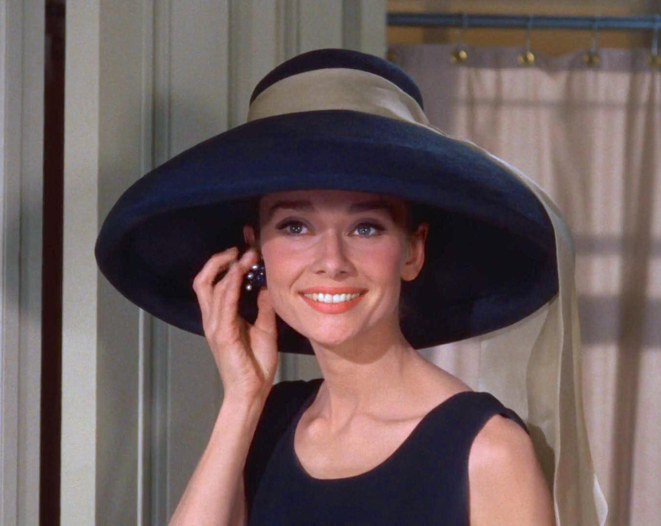 Cropped screenshot of Audrey Hepburn from the trailer for the film Breakfast at Tiffany's